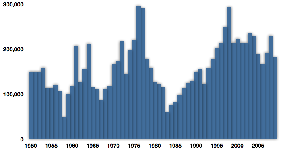 Fisheries recorded capture of Pleurogrammus azonus from 1950 to 2009. Data source FAO fisheries